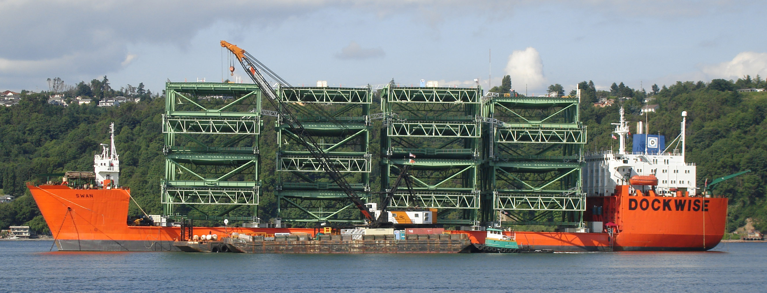 The heavy-lift ship Swan carrying sections of the new Tacoma bridge from Seoul, South Korea ; originally Image:Narrows Bridge Sections BA.JPG, cropped by Korrigan to focus on the ship. Information about Swan may be found at IMO 8001000.A ship can change name and flag state through time, but the IMO number remains the same through the hull's entire lifetime. As a result, it can be useful to identify a ship by using the IMO number.